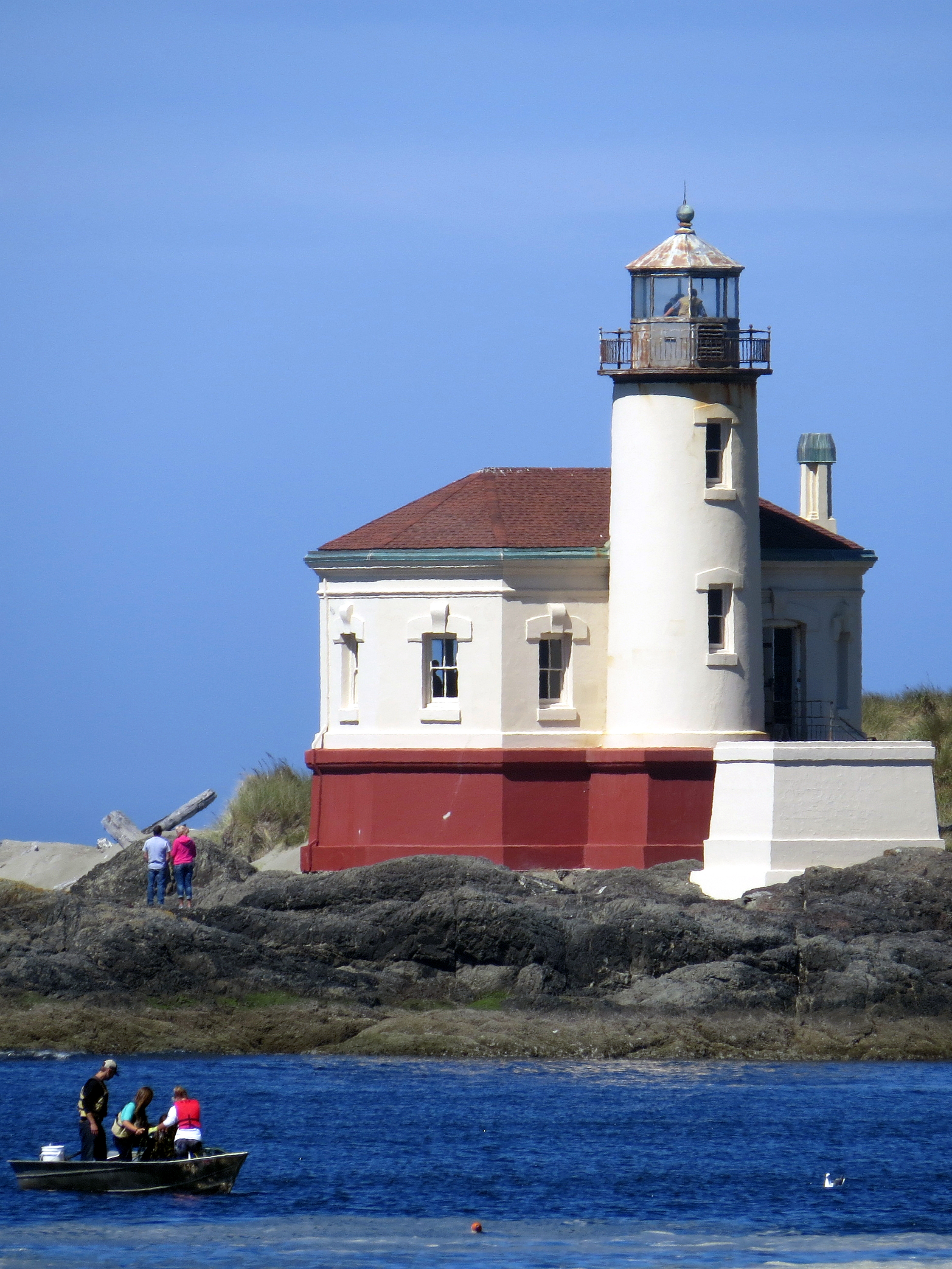 Shot from 1/2 mile with Canon SX50HS